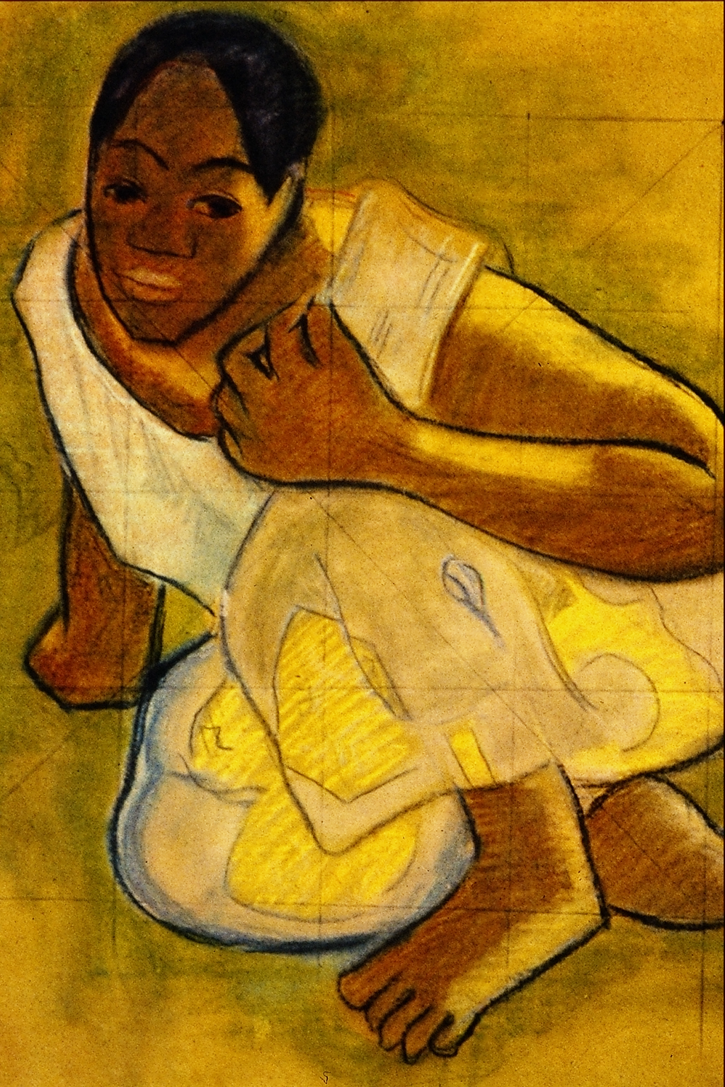 Crouching Tahitian Girl